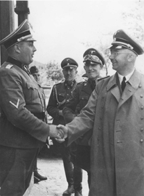 Left to right: Janowska concentration camp commandant Friedrich Warzok, SS-Gruppenfuhrer Fritz Katzmann, Reichsfuehrer SS Heinrich Himmler during official visit at a place of extermination of Polish Jews from the Lwow Ghetto.